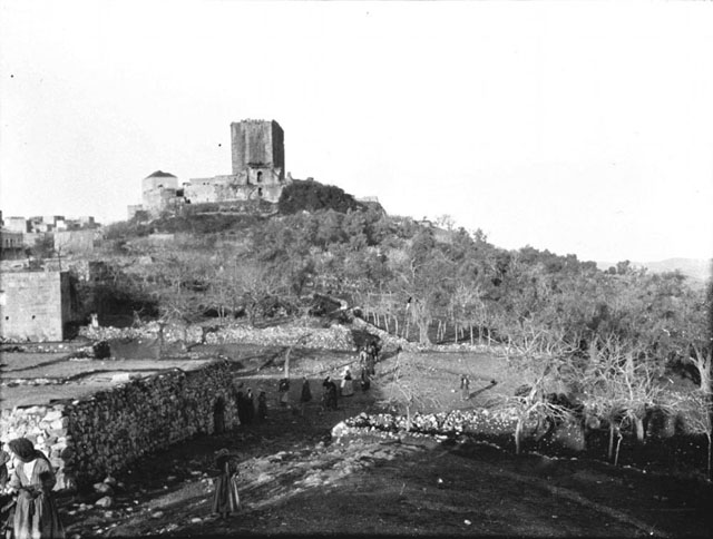 Chastel Blanc (Safita) from distance showing donjon